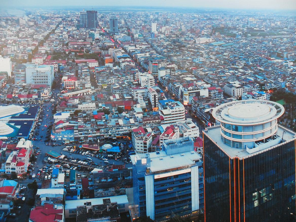 Centre of Phnom Penh, Cambodia